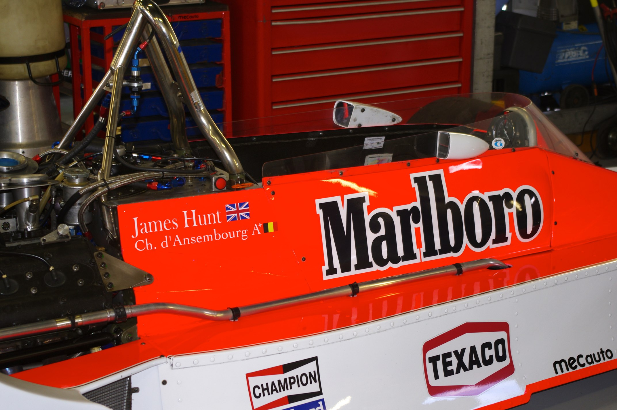 Silverstone Classic 2011